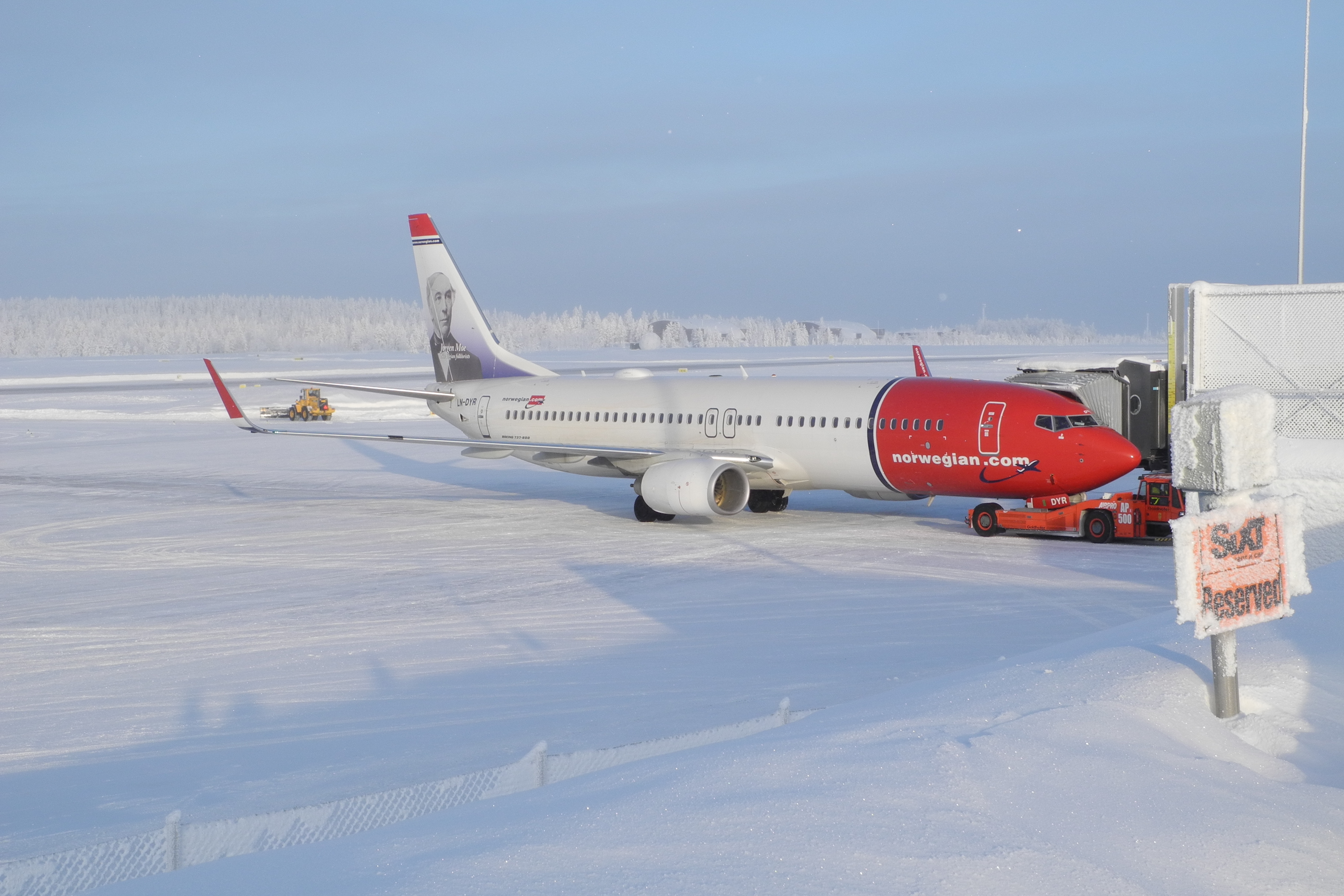 A Boeing 737-8JP(WL) aircraft (LN-DYR) of Norwegian Air Shuttle at Rovaniemi Airport in winter